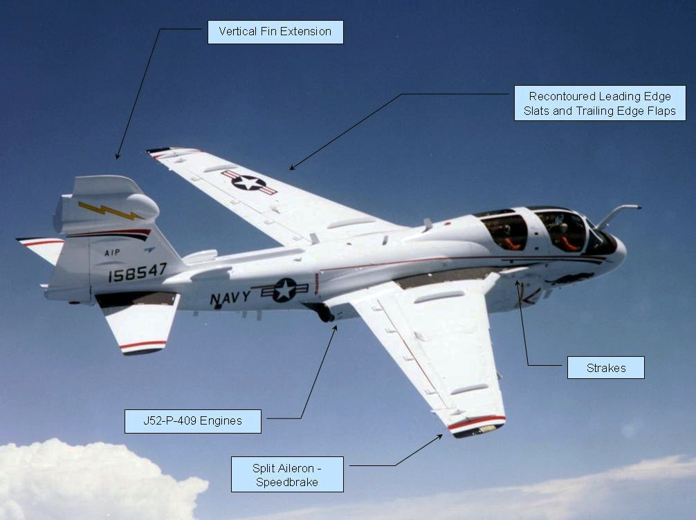 Official US Navy Photograph of an EA–6B Prowler aircraft, picture modified with notes. Photograph taken during chase flight. Photo is in the public domain as an unclassified work of the US Federal Government.